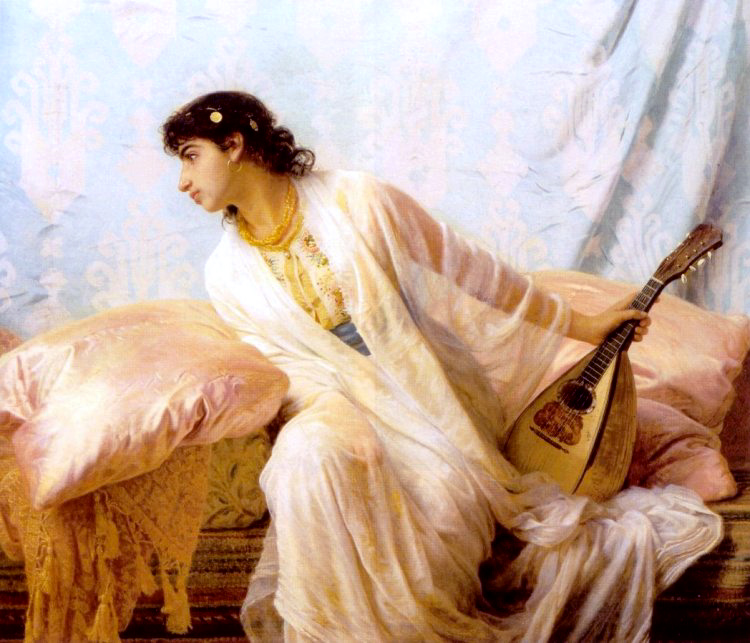 To_her_Listening_Ear_Responsive_Chords_of_Music_came_Familia